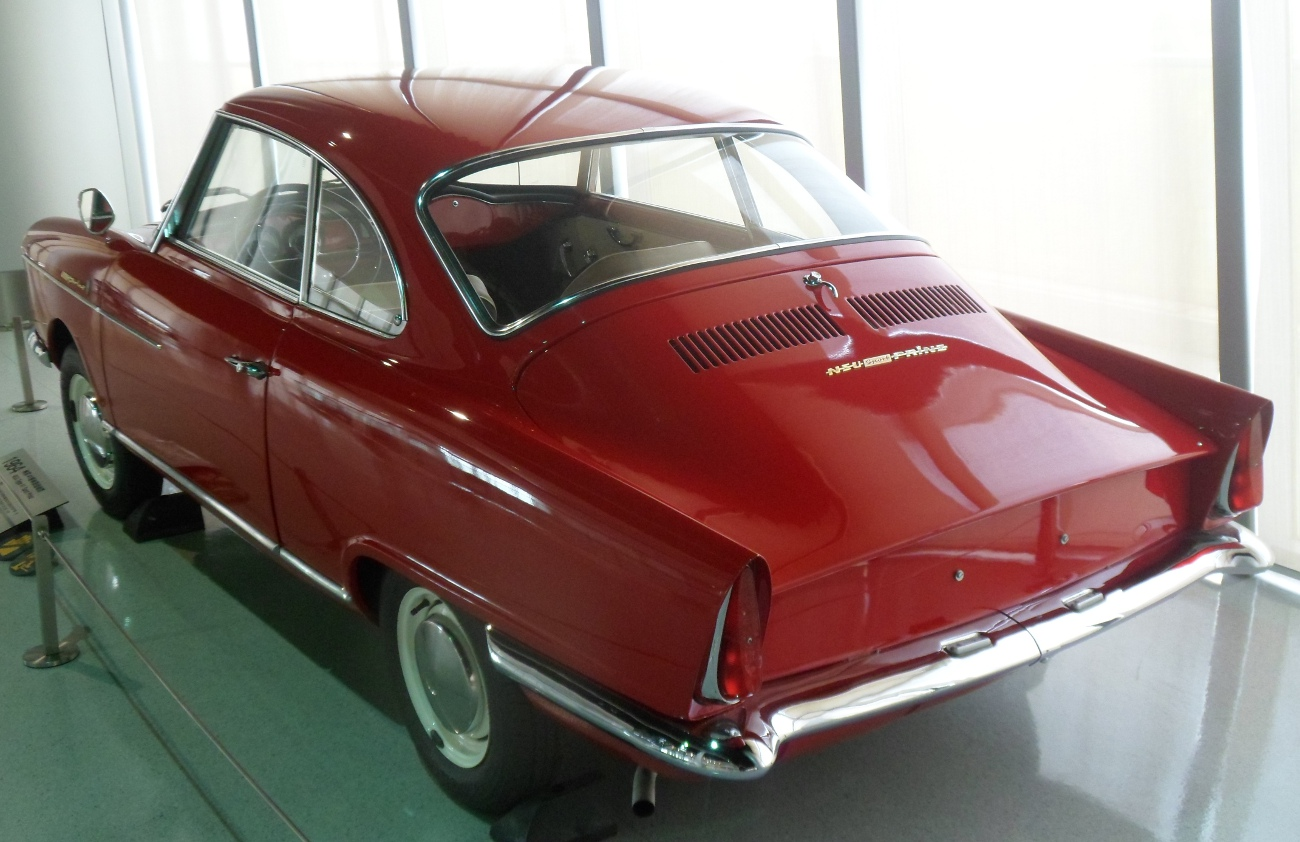 1964 NSU Type 41 Sport Prinz photographed at the Shanghai Automobile Museum, Anting, China.